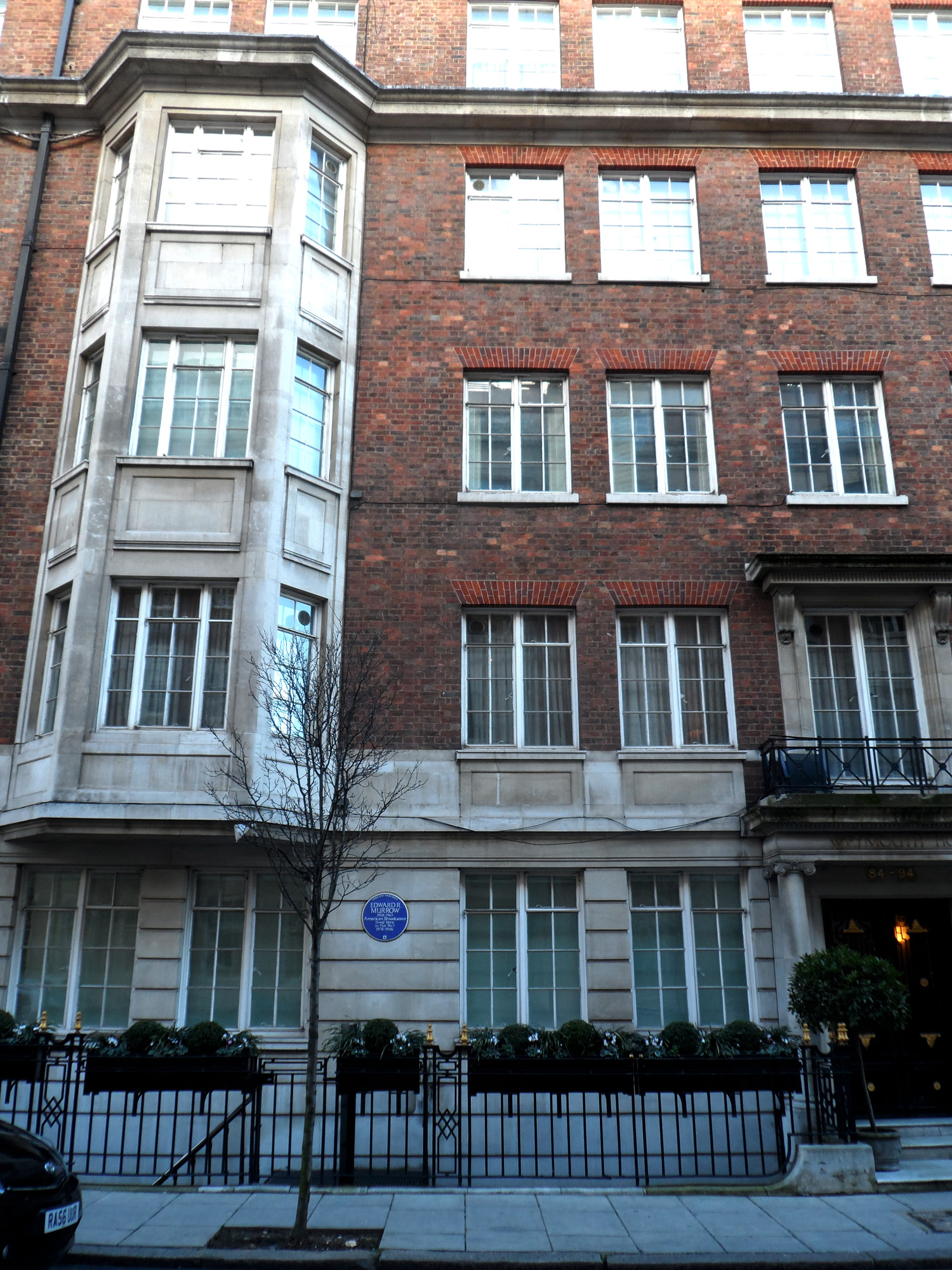 "EDWARD R. MURROW 1908-1965 American Broadcaster lived here in flat No.5 1938-1946" - Weymouth House, 84-94 Hallam Street, Fitzrovia, London W1W 5HF